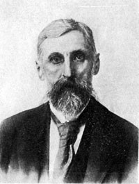 Adam Asnyk Polish poet of second half of XIX century (d. 1897)